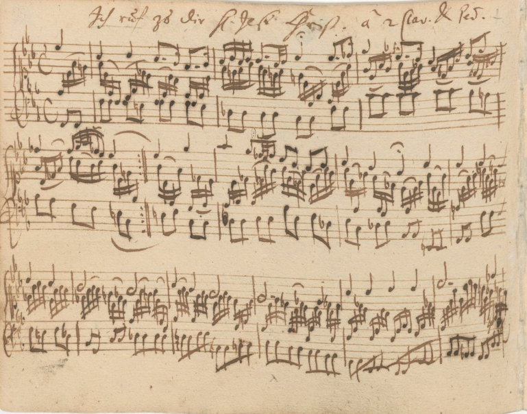 Autograph manuscript of "Ich ruf zu dir, Herr Jesu Christ" BWV 639 from the Orgelbüchlein